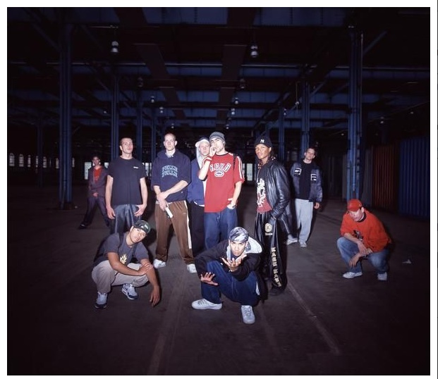 hiphop group DAC in 2004